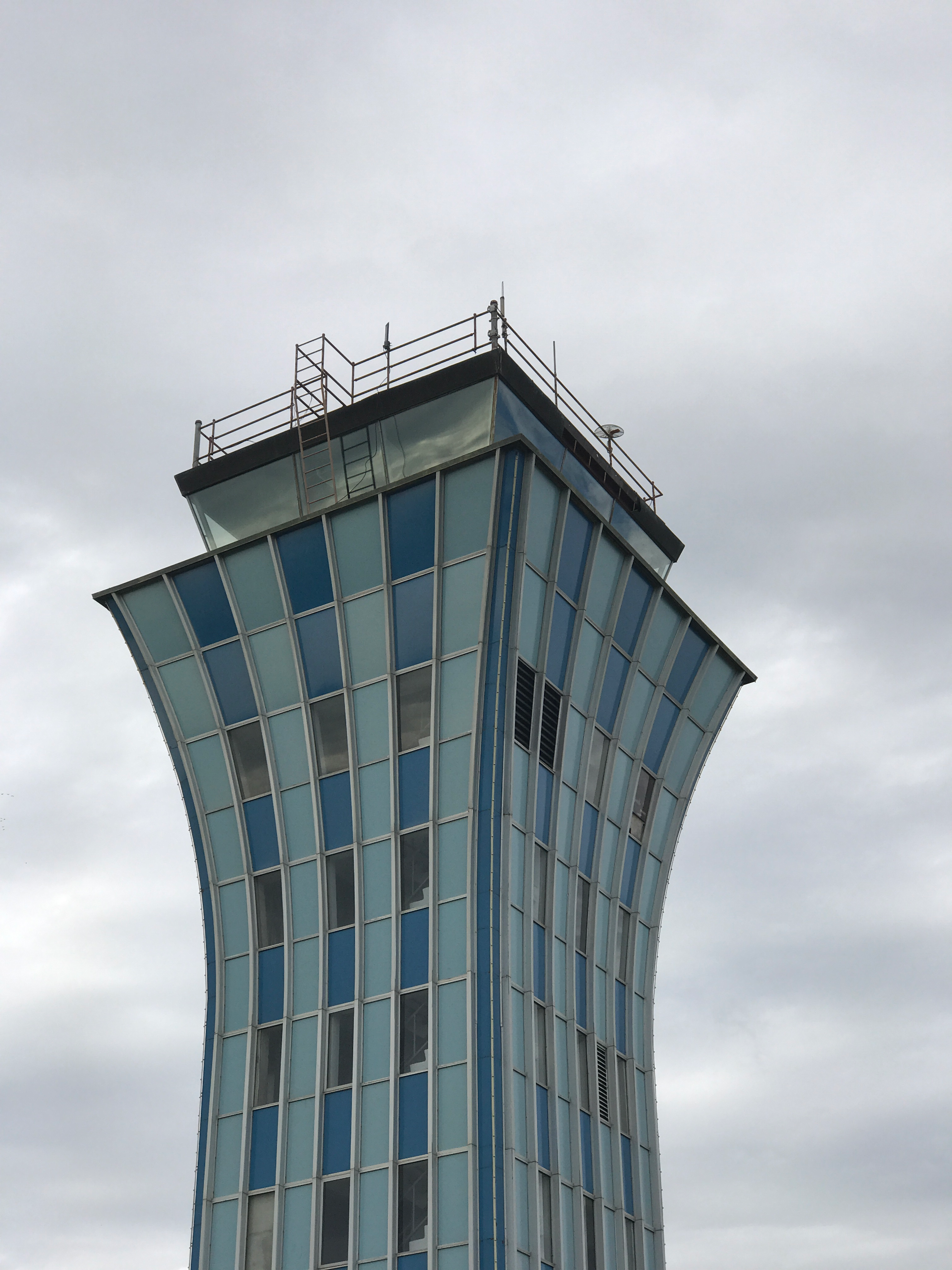 Close-up of the Mueller tower as seen on November 11, 2016